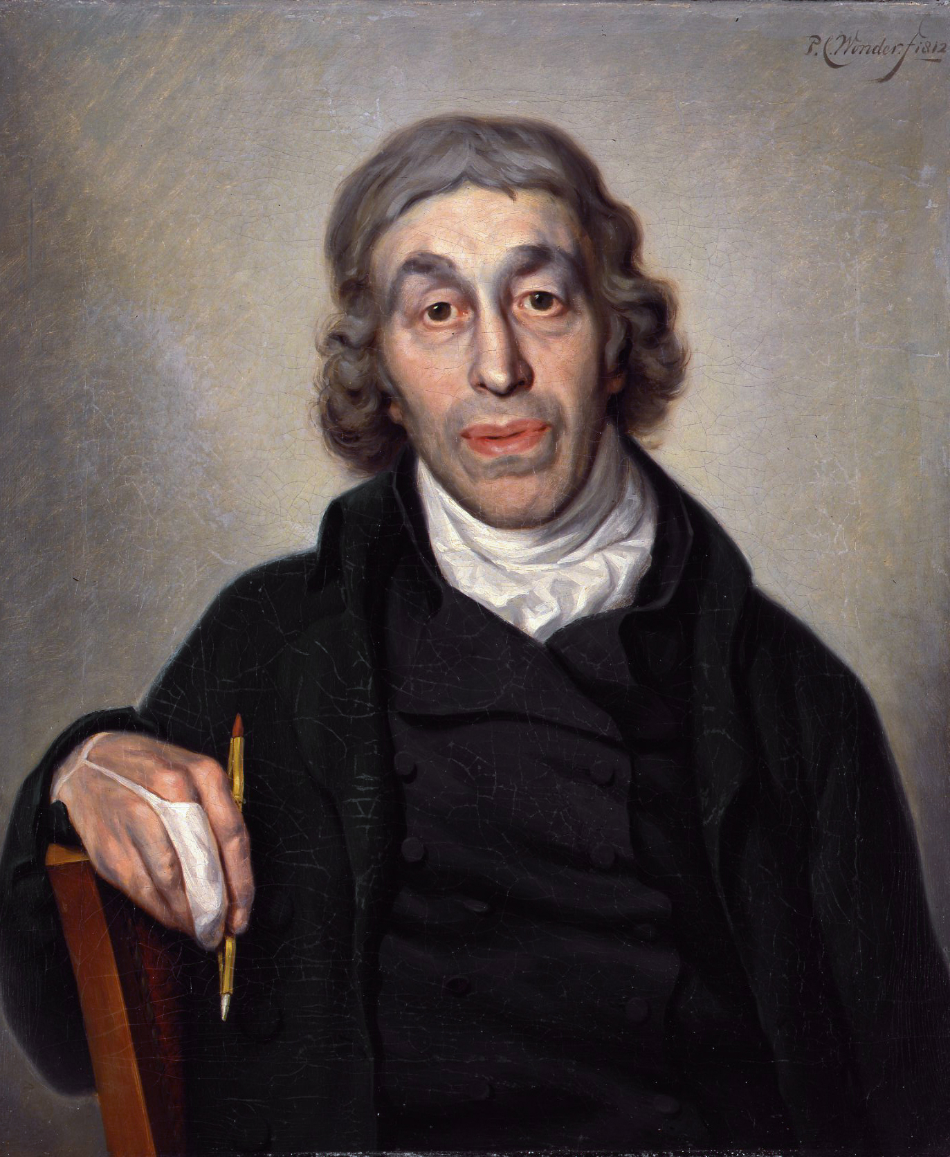 Portrait of Jacob van Strij (1756-1815)